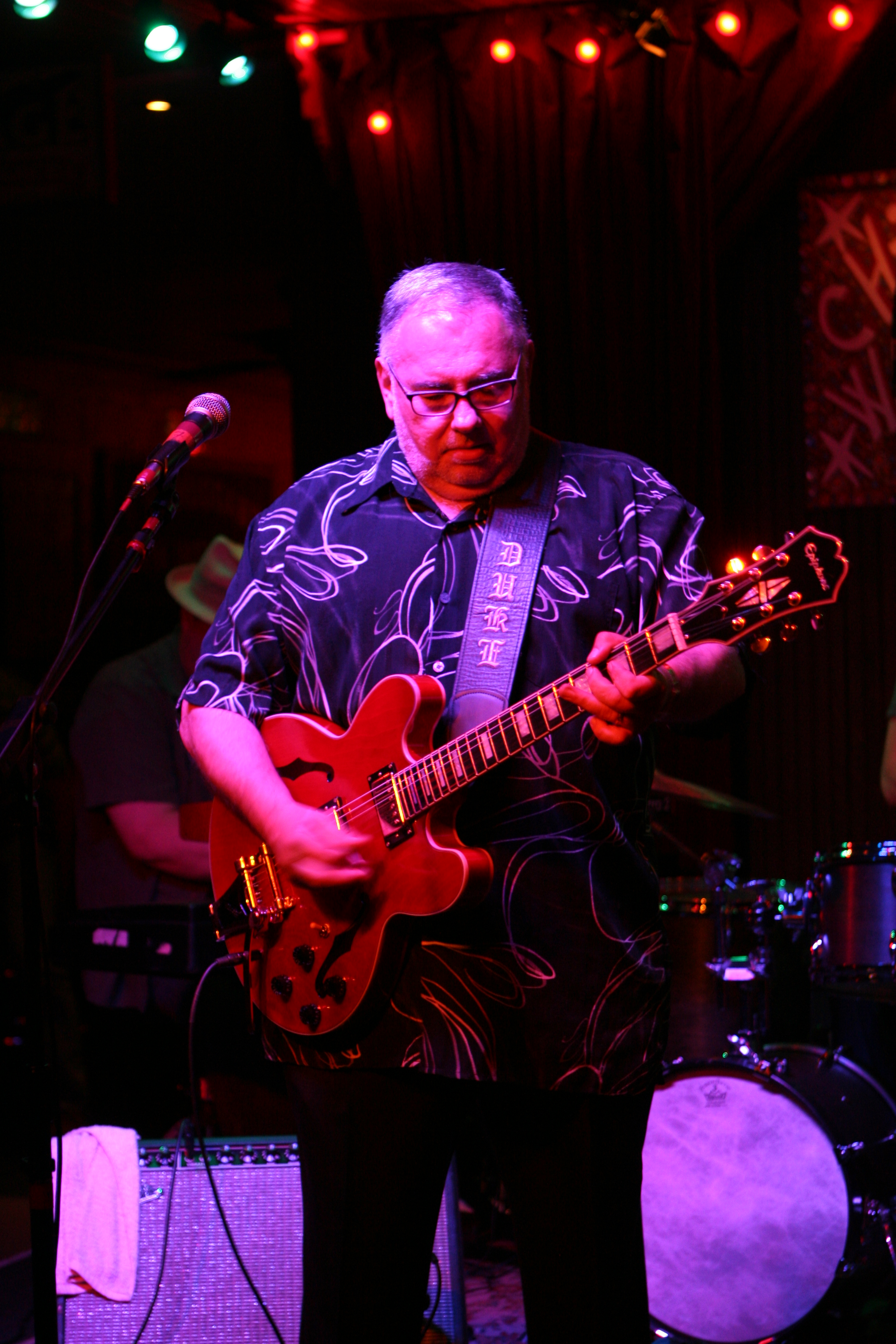 Duke Robillard at Chickie Wah Wah, New Orleans. Monday, May 7 2012